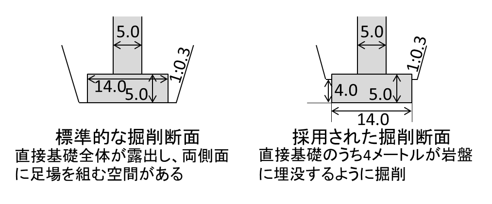 Excavation size of basement for No.3 pier of Shin-Meishin Mukogawa bridge. Left figure is standard size and right figure is improved size which is actually employed.